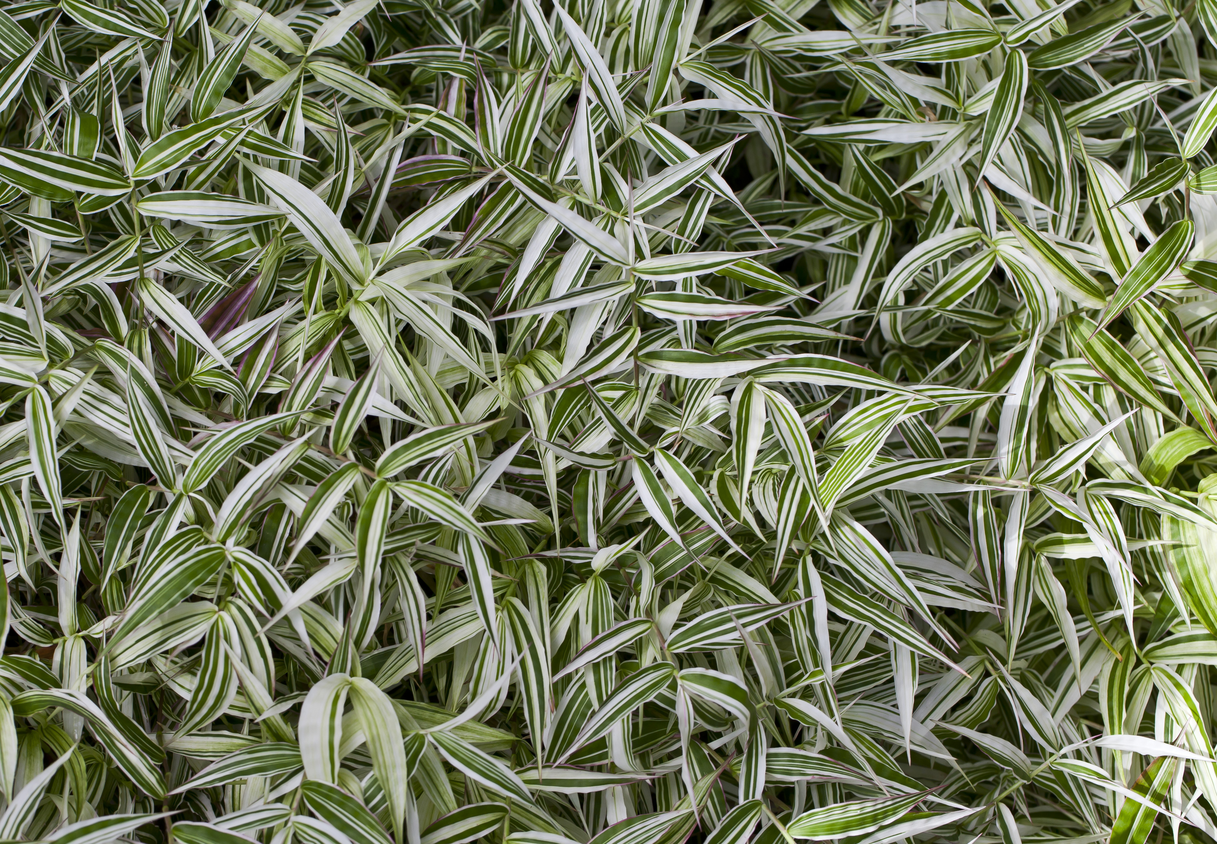 Oplismenus hirtellus, Tallinn Botanic Garden, Estonia